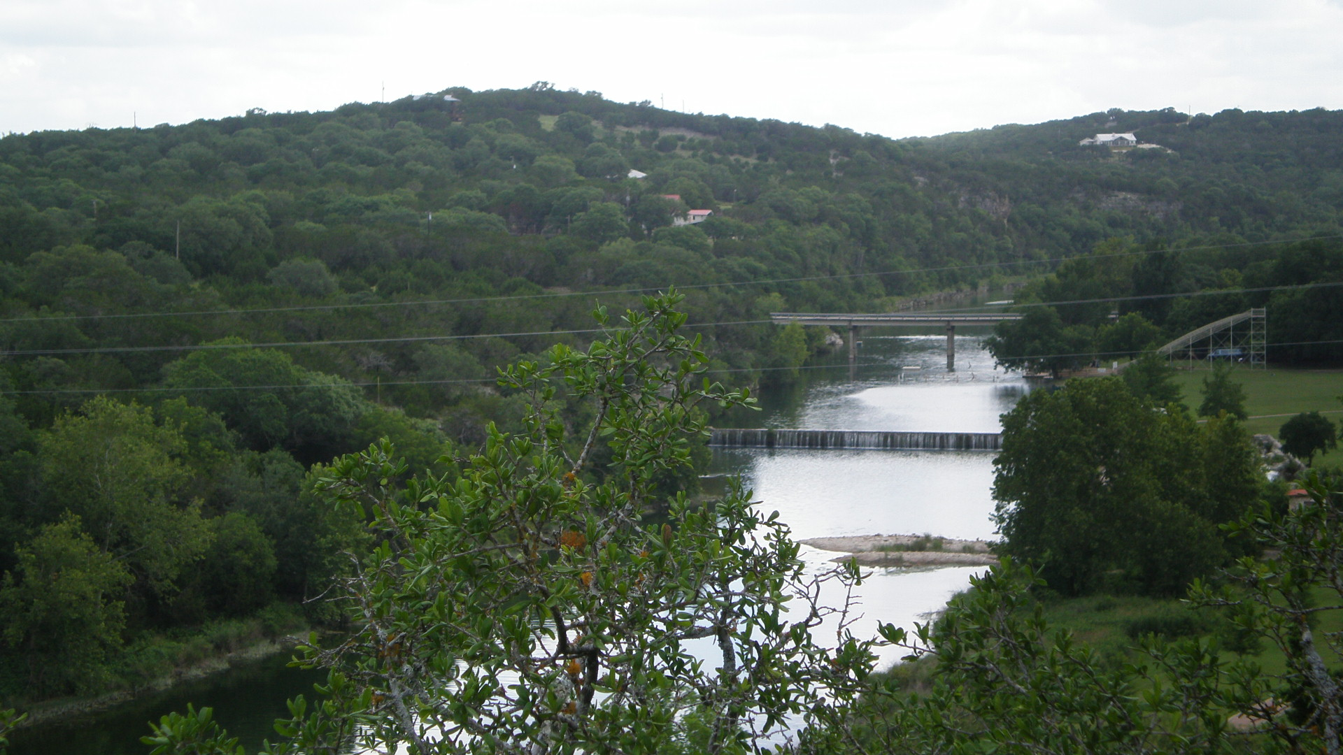 Picture taken from Chapel on the Hill